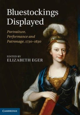 Cover of Bluestockings displayed: Portraiture, performance and patronage, 1730-1830. Cambridge University Press, Cambridge, 2013. (Editor) ISBN 9780521768801